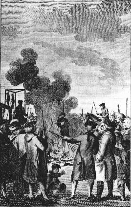 18th century illustration of Ann Beddingfield burned at the stake for the murder of her husband, John Beddingfield, England, 1763. From the Newgate Calendar.